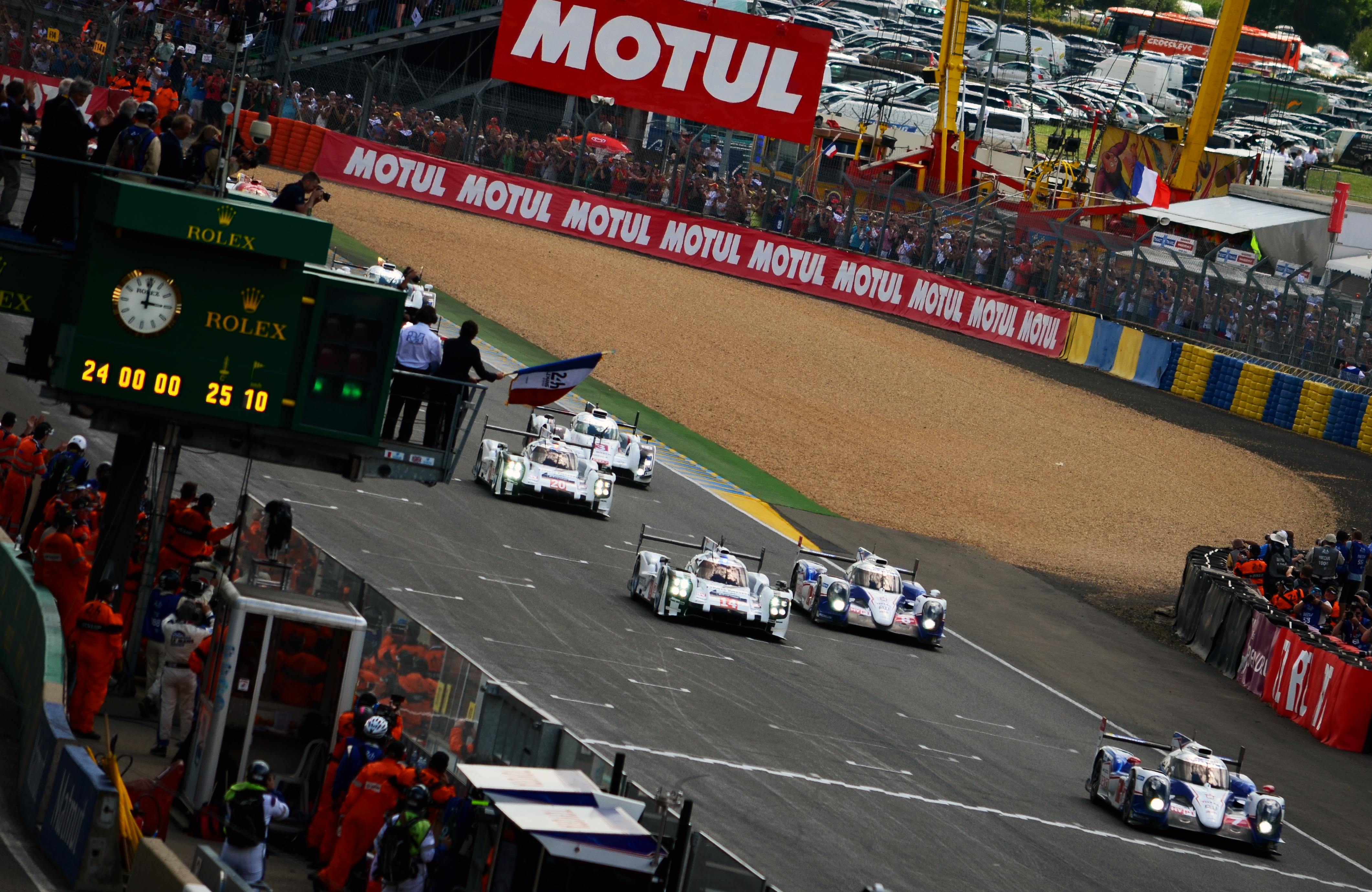 The Start The #7 Toyota crosses the line as Fernando Alonso drops the flag to commence the 2014 24 Hours of Le Mans.